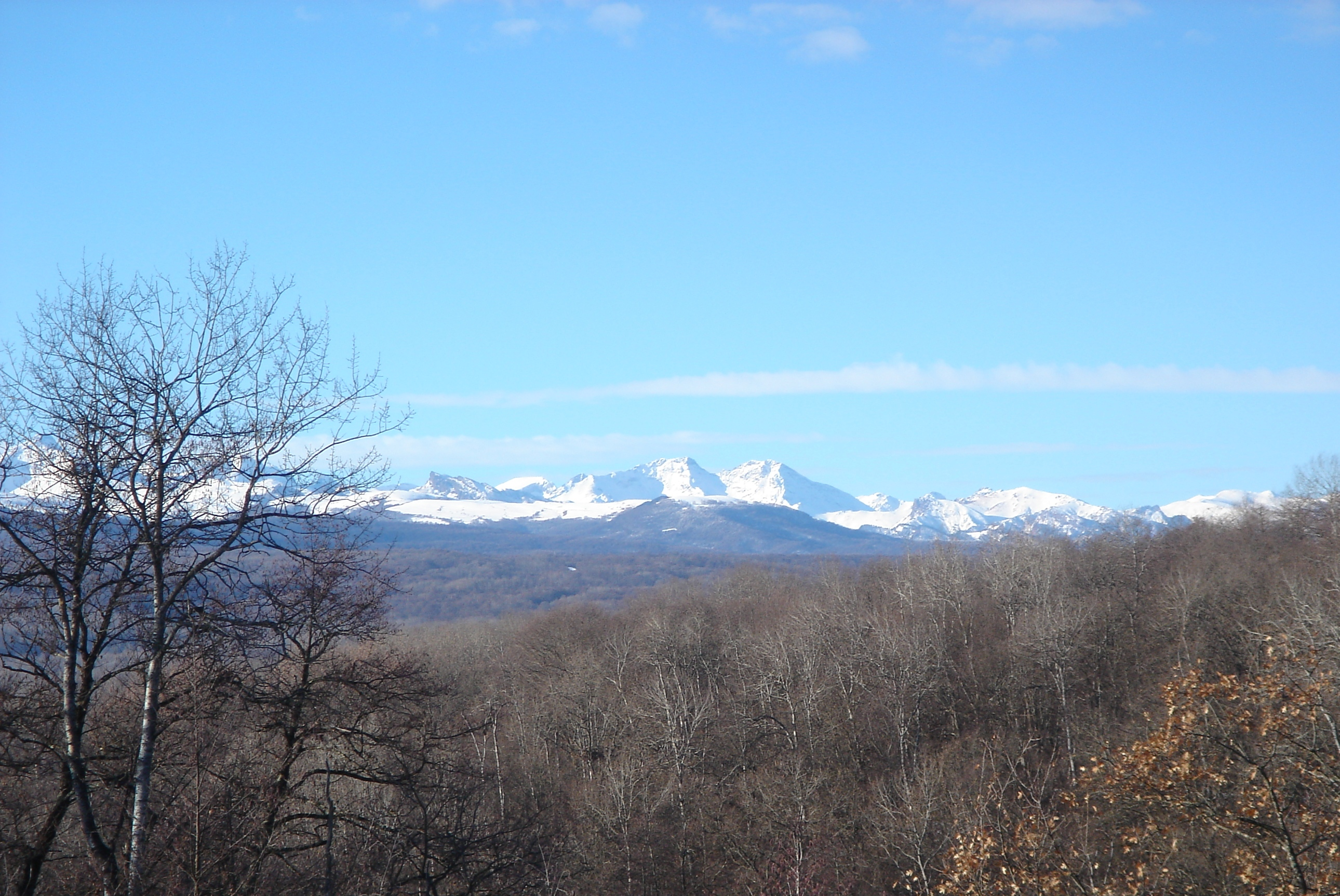 Zelenchuksky District, Karachay-Cherkessia, Russia